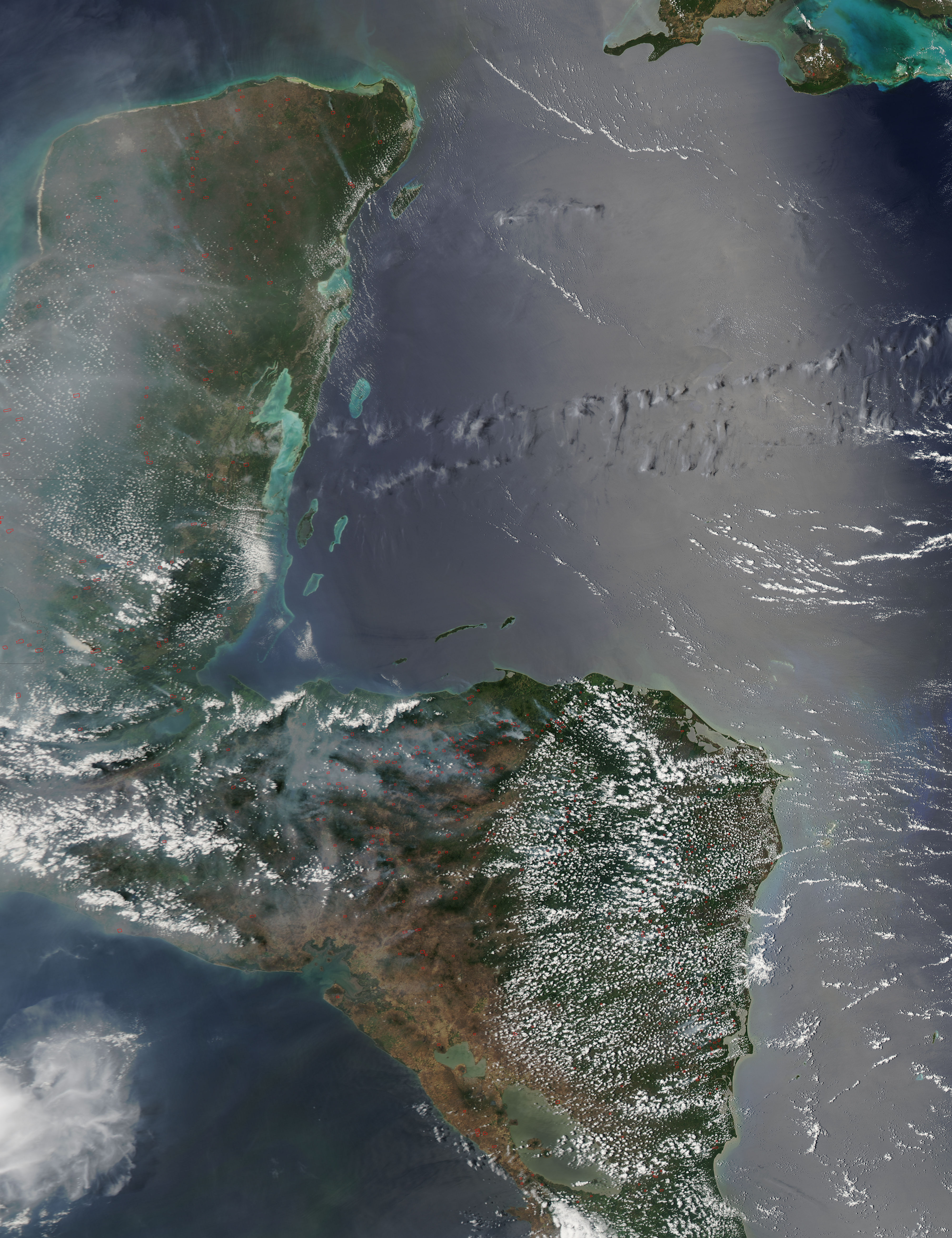 This image taken from NASA's Aqua MODIS satellite at 18:50 UTC of April 23, 2015 shows wildfires across north Central America, that includes Mexico, Guatemala, Honduras, El Salvador and Nicaragua. In the drought season in the tropics (from November to May), wildfires are common in the region.